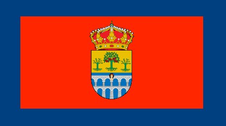 Flag of Moraleja de Enemedio